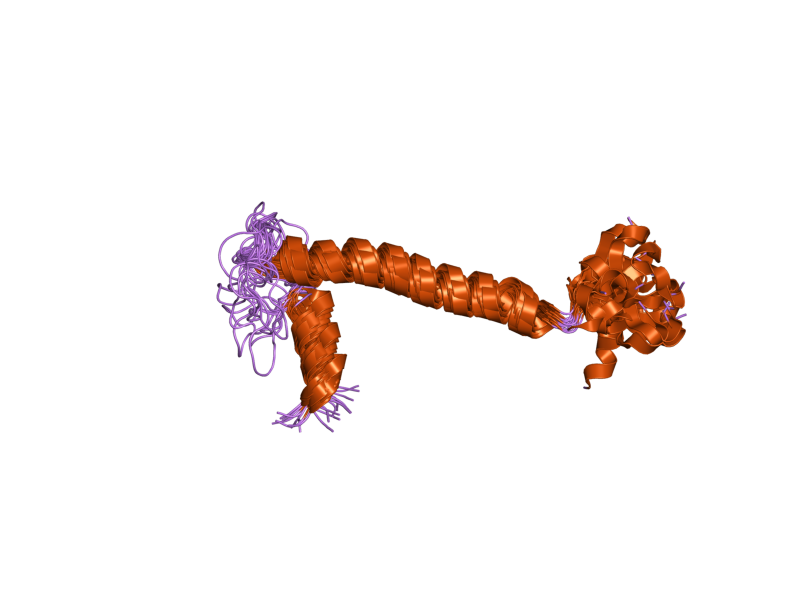 Cartoon representation of the molecular structure of protein registered with 2jo1 code.